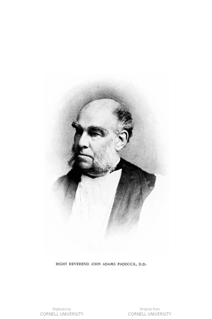 The Rt Rev John Adams Paddock